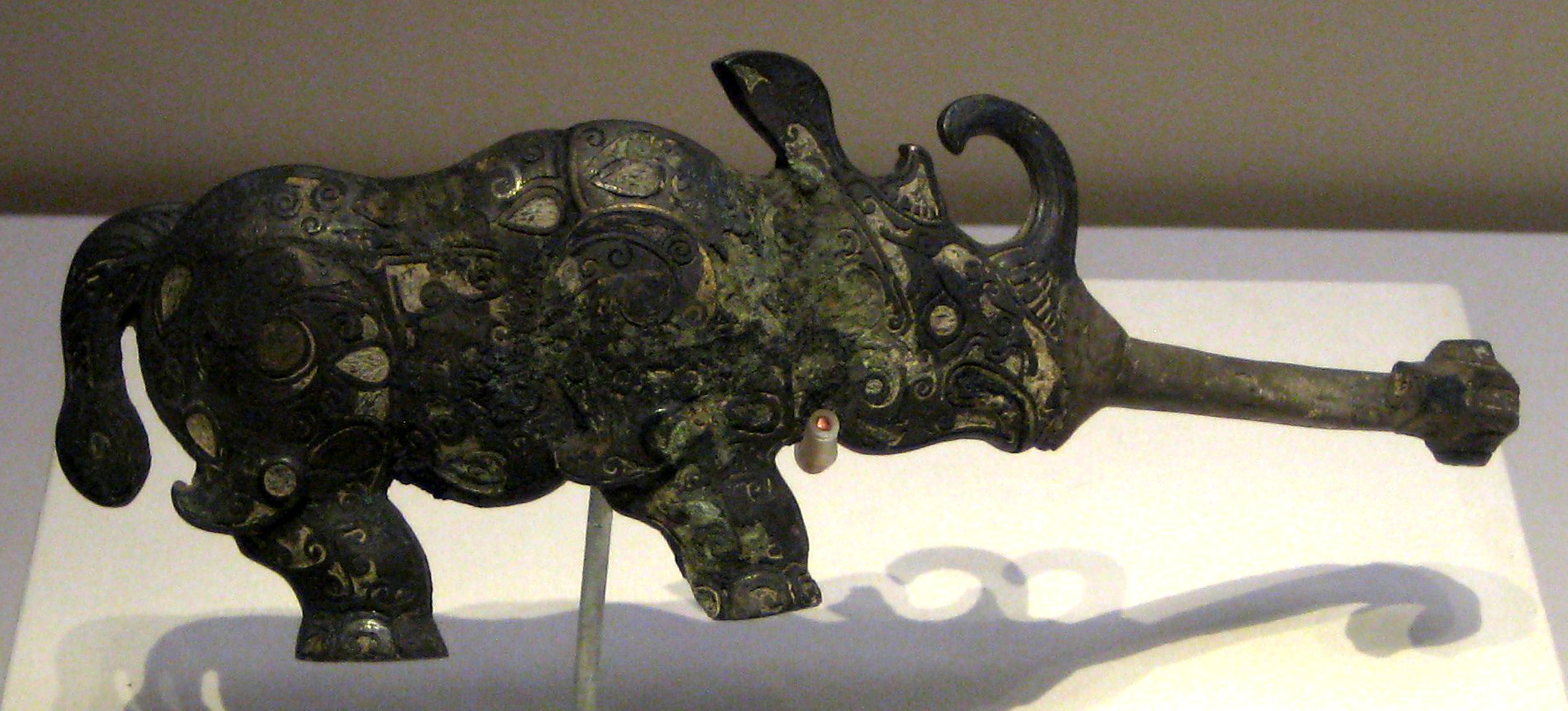 Rhinoceros-shaped bronze belt hook inlaid with gold and silver from the Warring States Period, Ba State. Unearthed at Zhaohua, Sichuan Province, 1954. Collections of the National Museum of China